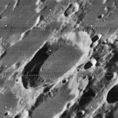 Lunar Orbiter IV-178-h1